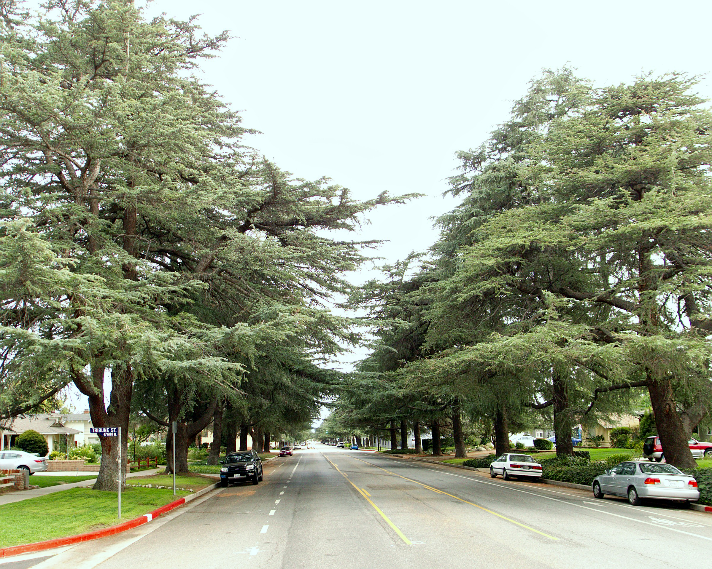 Some of the 114 Cedrus deodara trees along White Oak Avenue, planted in 1932 between San Fernando Mission Blvd. and San Jose St. in Granada Hills. View is to the south from Tribune St. The trees are Los Angeles Historic-Cultural Monument No. 41.[1]